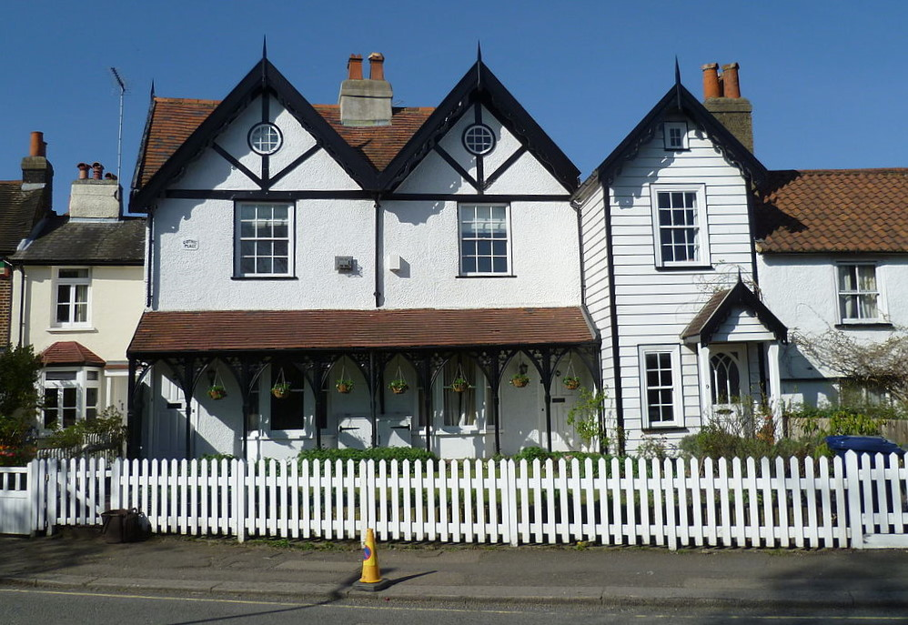 Hadley